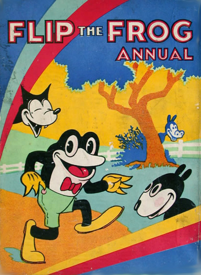 Cover of the Flip the Frog Annual for 1930